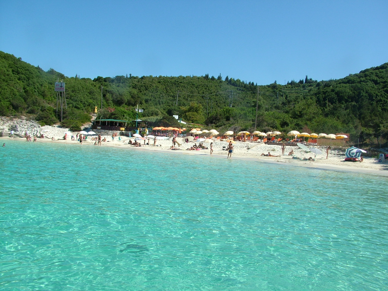 Vrika beach, Antipaxoi, Greece